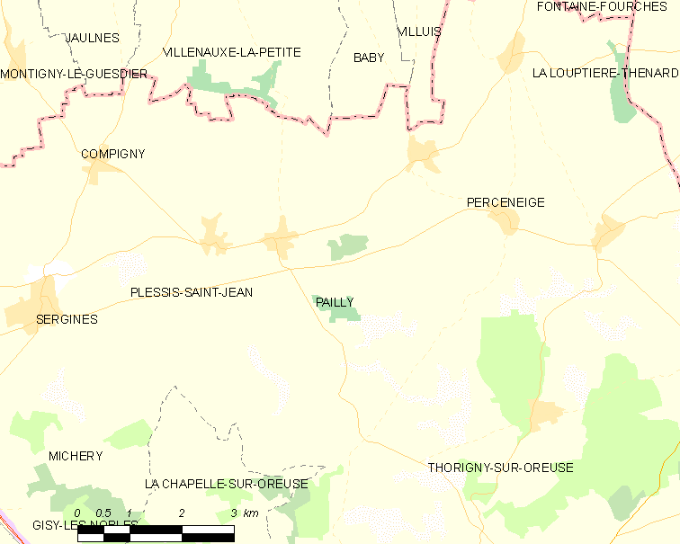 Map of French municipality Pailly